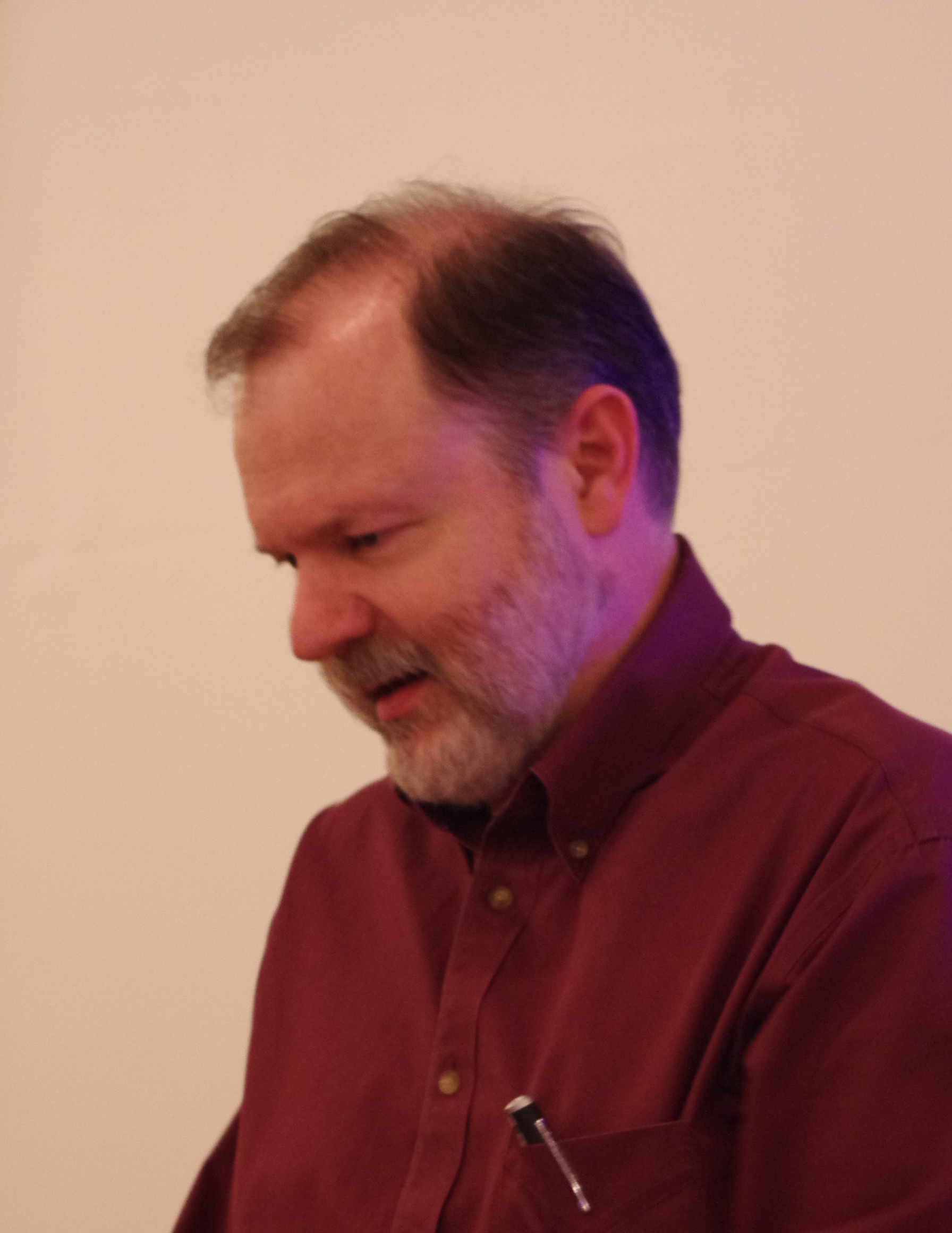 Robert J. Lang at the Pacific Institute for the Mathematical Sciences in Vancouver